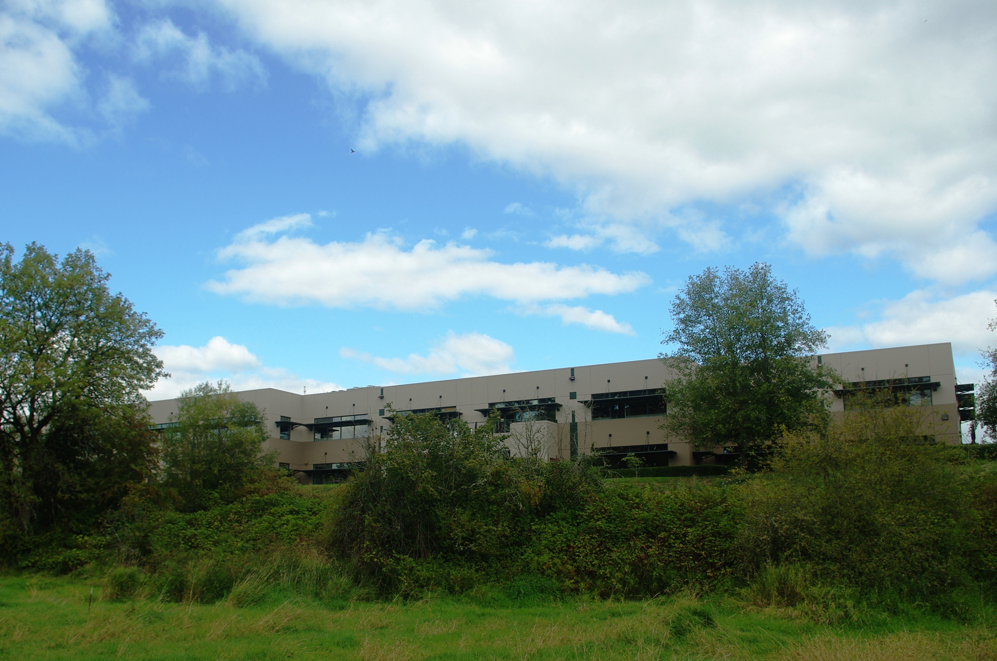 Norm Thompson Outfitters office in Hillsboro, Oregon, USA